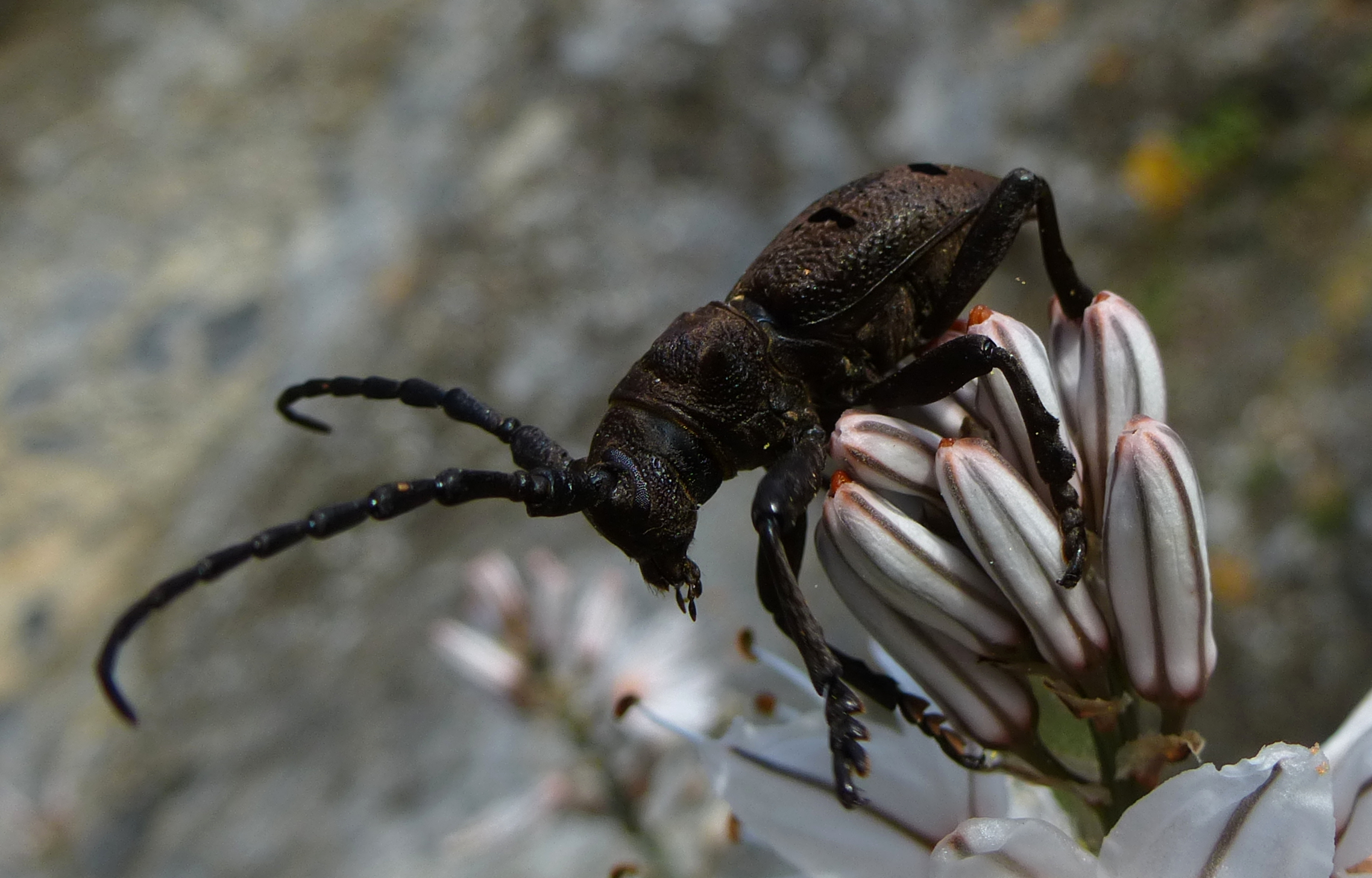 Specimen of Herophila tristis (Linnaeus, 1767) found in Corte, Corsica.